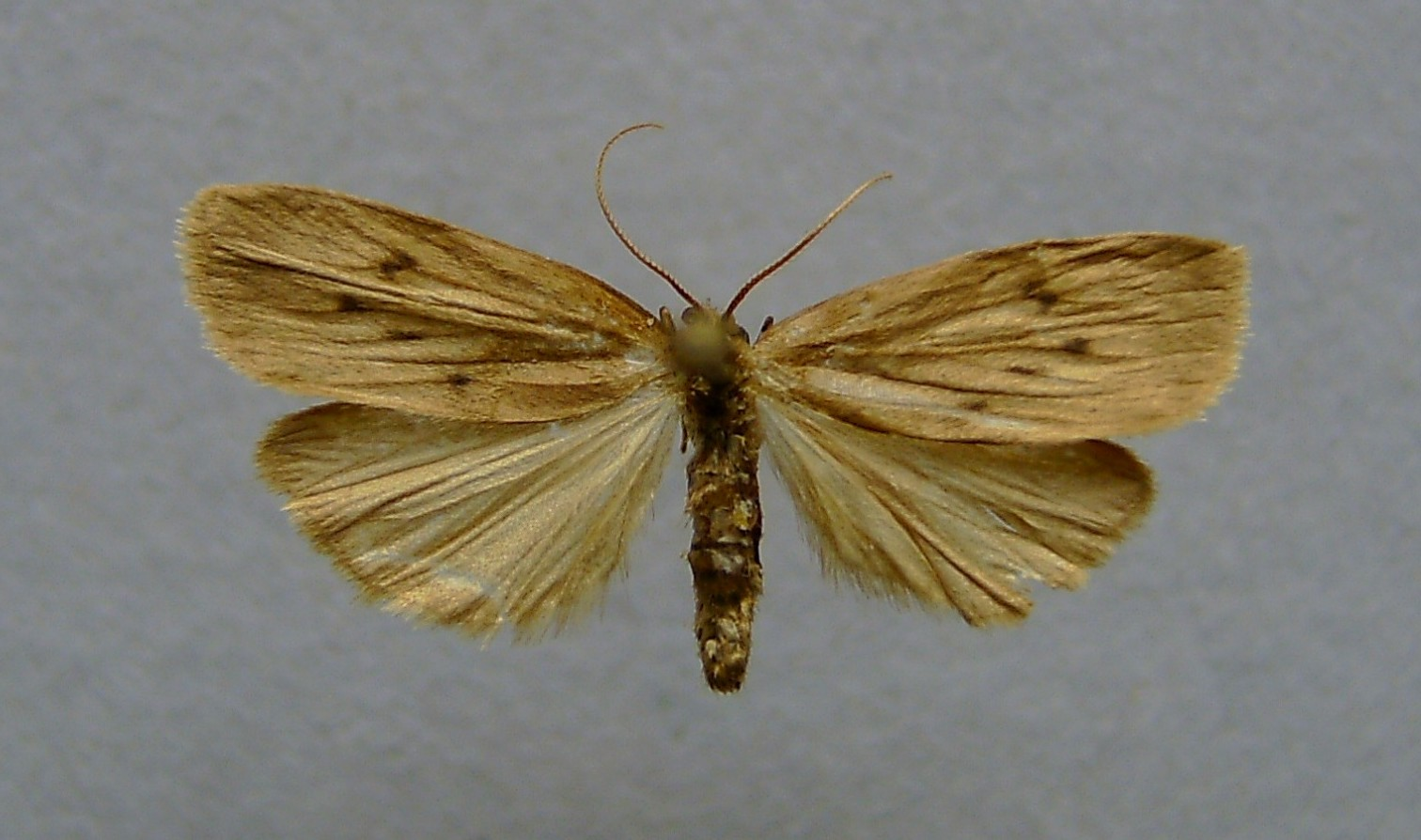 Pelosia obtusa, Marchegg Austria